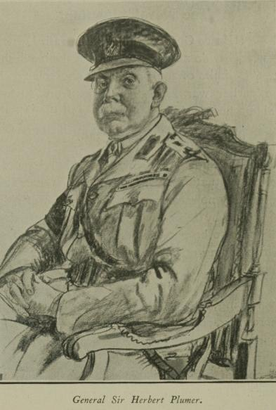 WWI Photograph of General Herbert Plumer